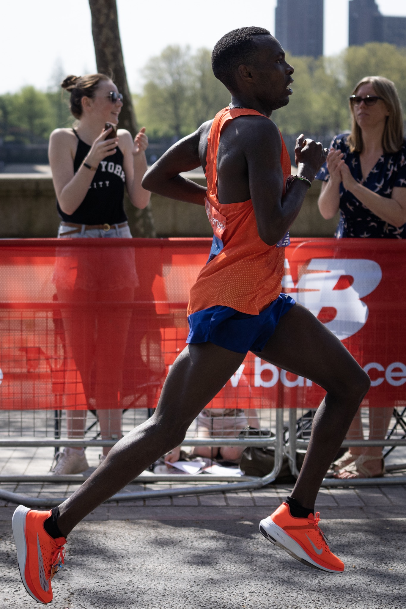 2018 London Marathon